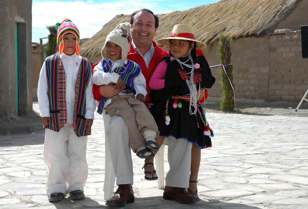 Espártago Ferrari in La Tirana